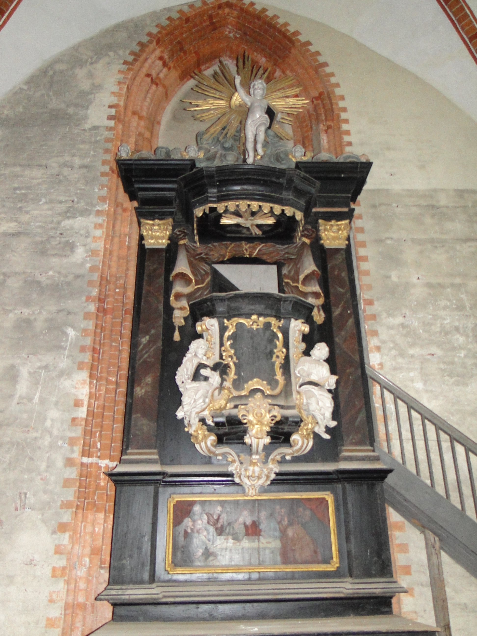 Pulpit altar at nuns' matroneum at church in Monastery in Dobbertin, district Parchim, Mecklenburg-Vorpommern, Germany